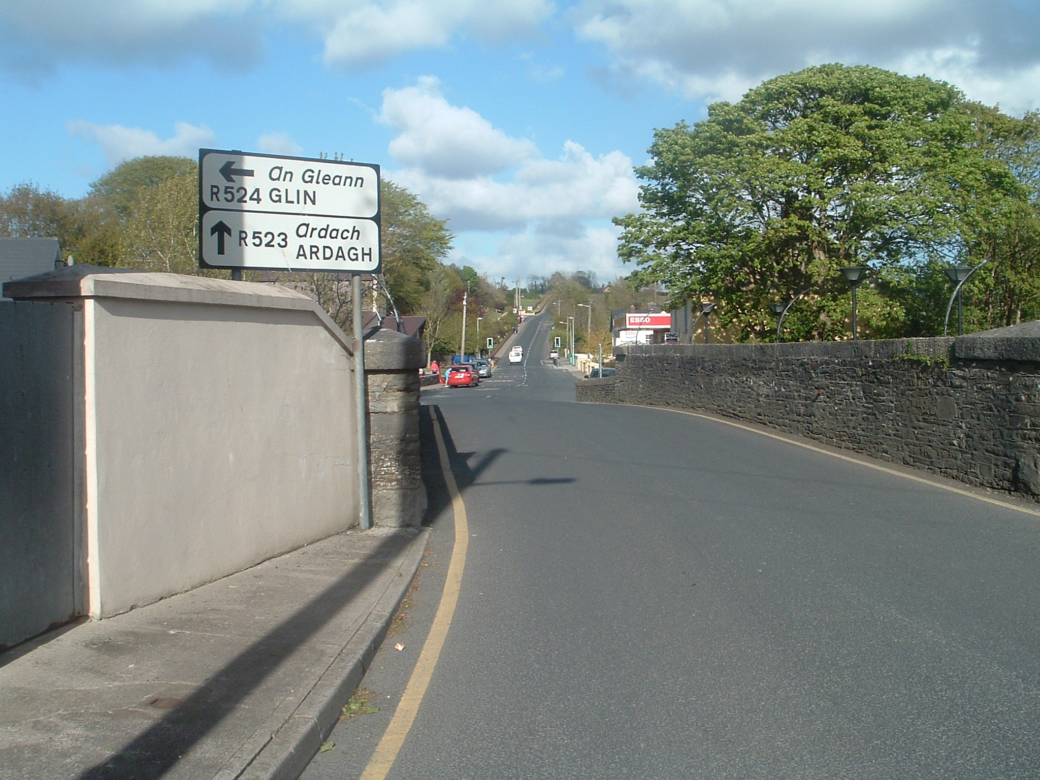 View from bridge over river gale in Athea, Co. Limerick